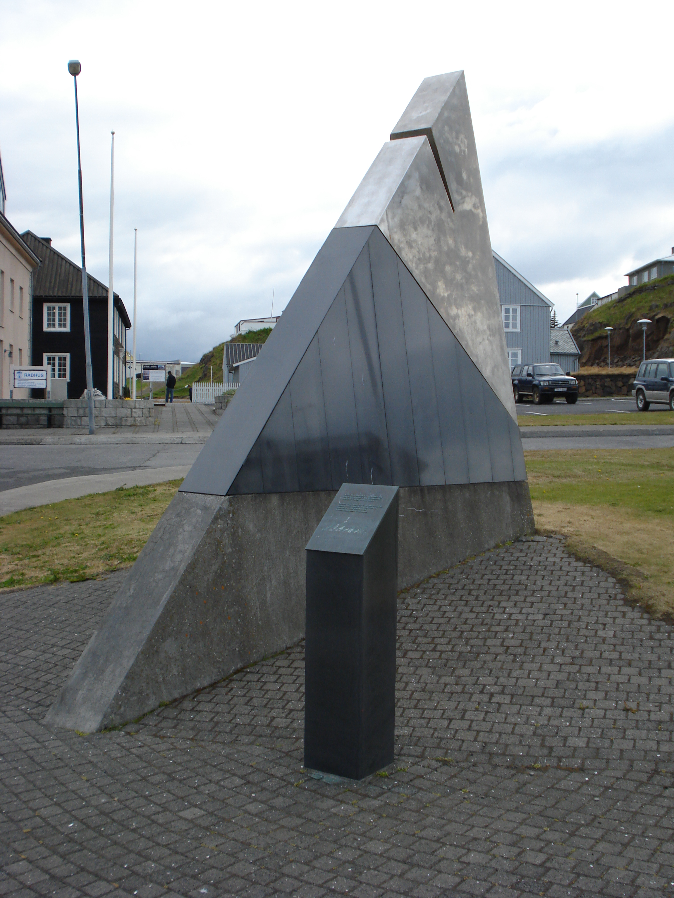 Memorial for Stykkishólmur being first place in Iceland of weather recordkeeping.